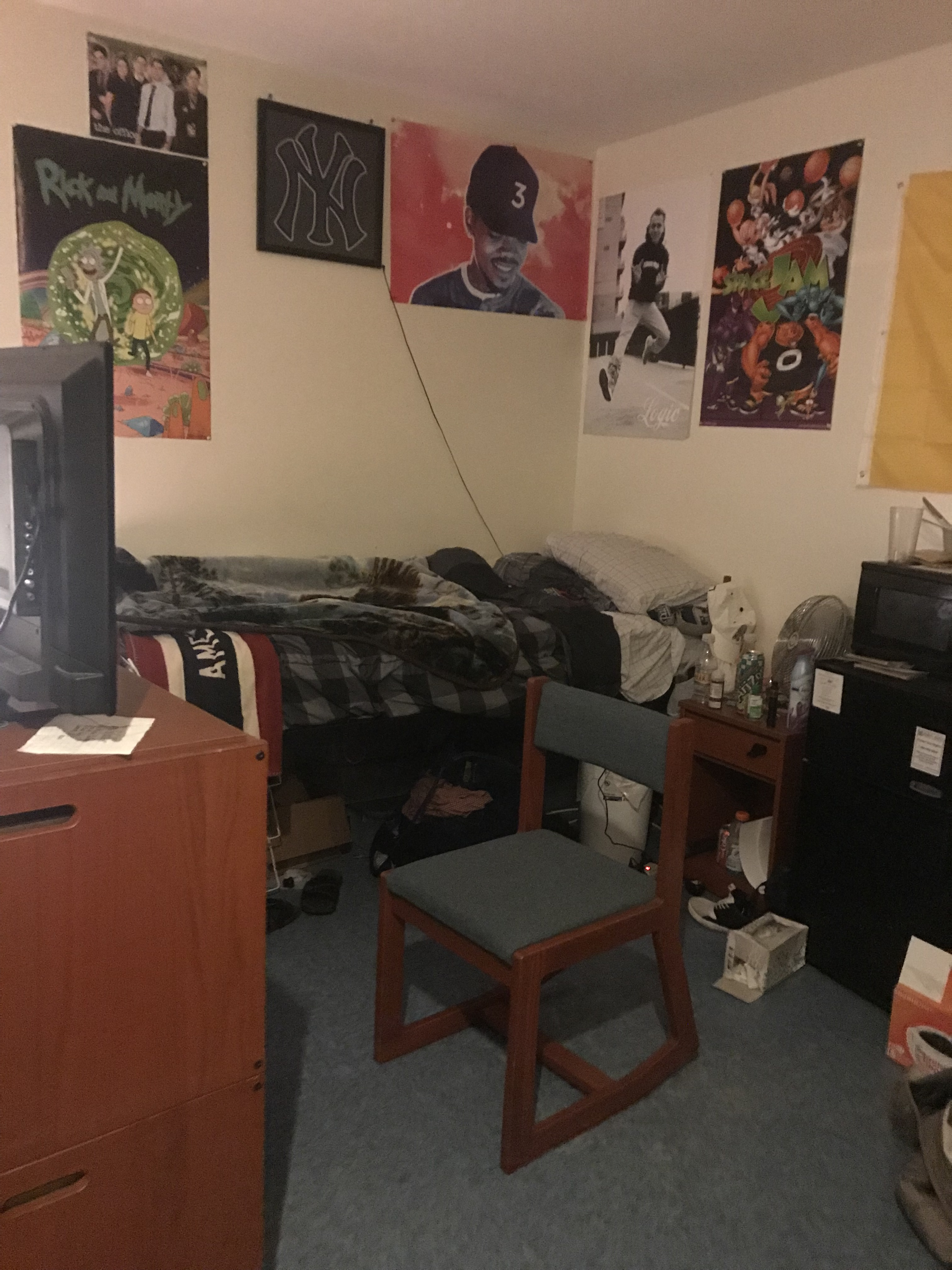 Dorm room at hilltop house Hartwick college